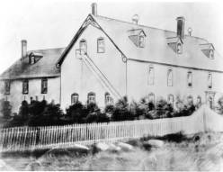 Government House of the Northwest Territories in Battleford (in present-day Saskatchewan), Canada. This building was the first permanent Northwest Territories legislature building.